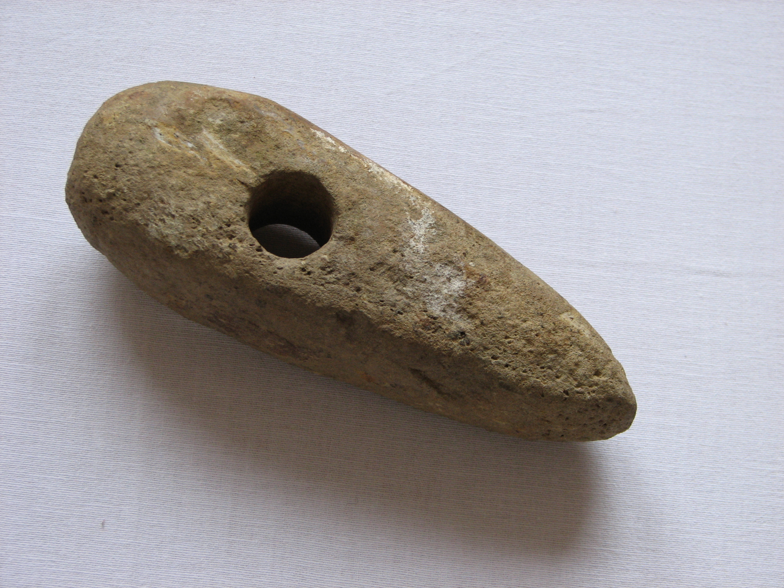 Stone axe hammer from neolithic, 8000 years old, found near Moravče pri Gabrovki in Slovenia.